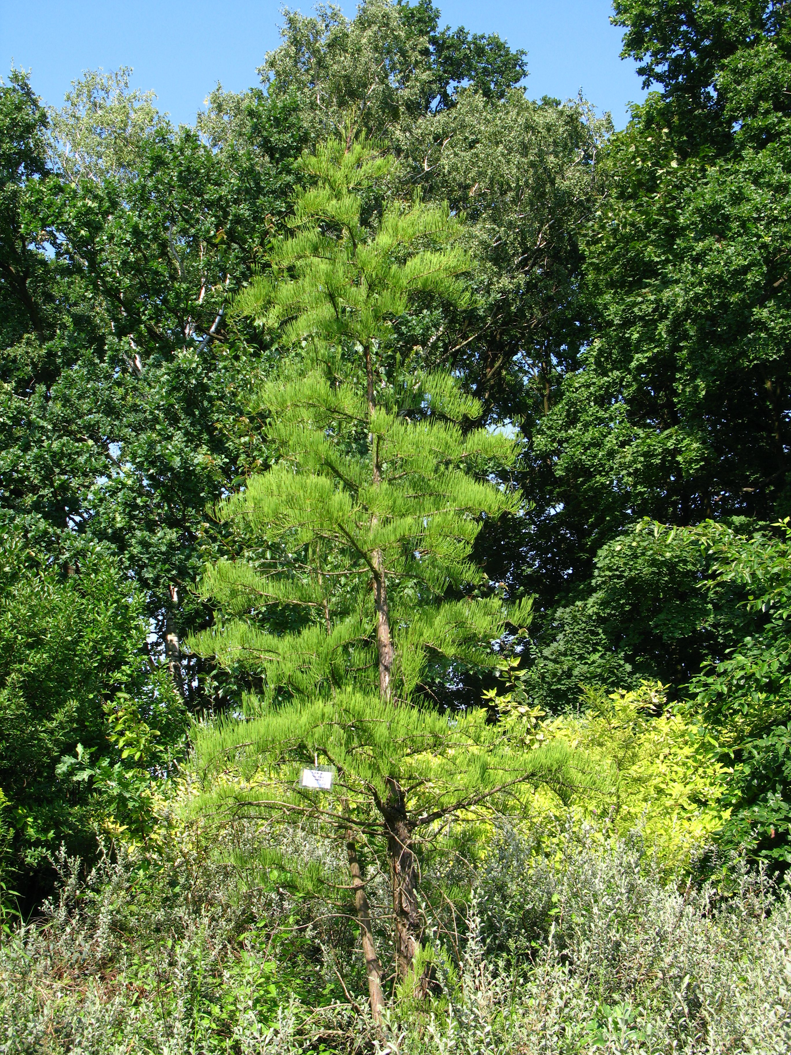 Taxodium ascendens in Arboretum in PAN Botanical Garden in Warsaw